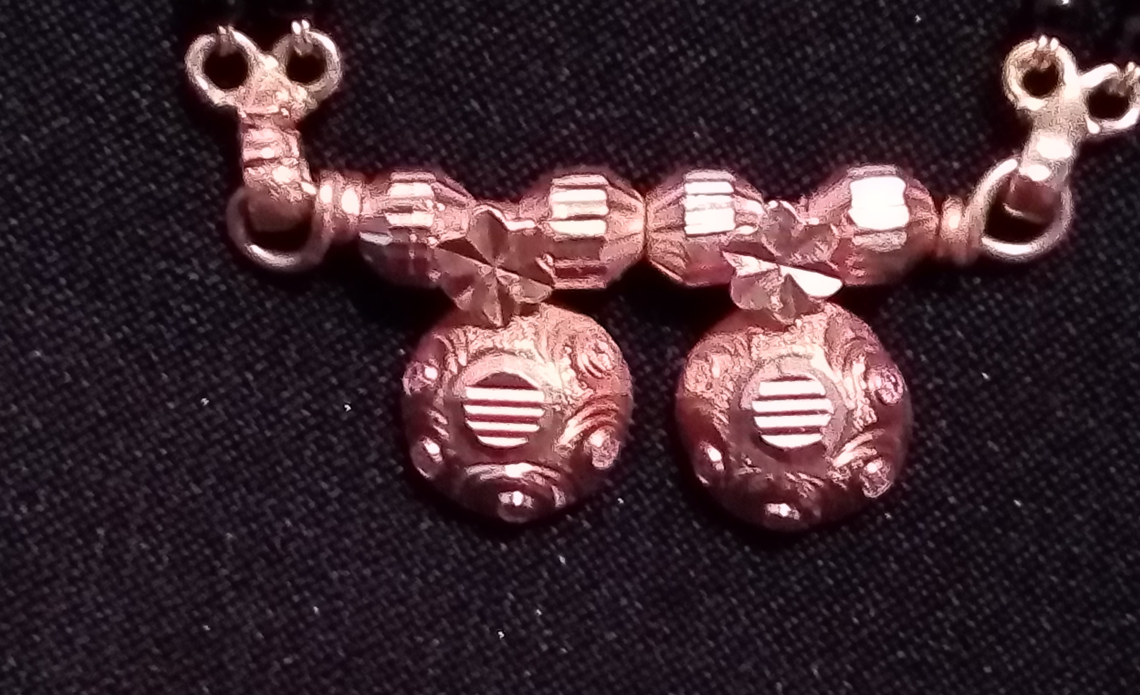 डोरले